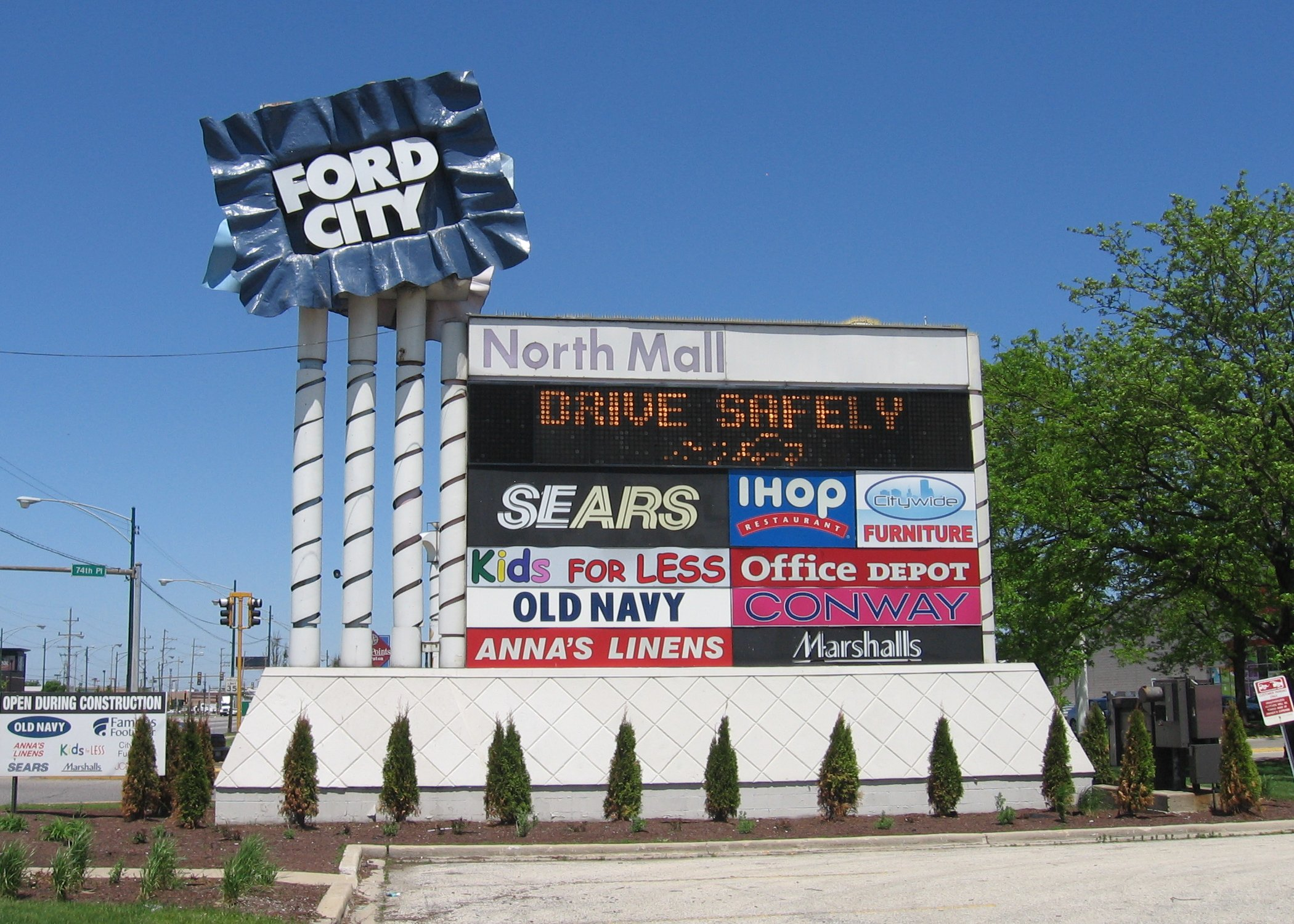 Ford City Mall Sign Chicago, IL USA